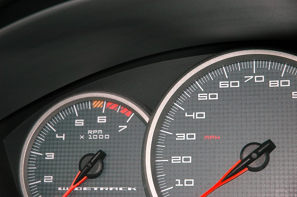 Tachometer (left) and Speedometer (right)